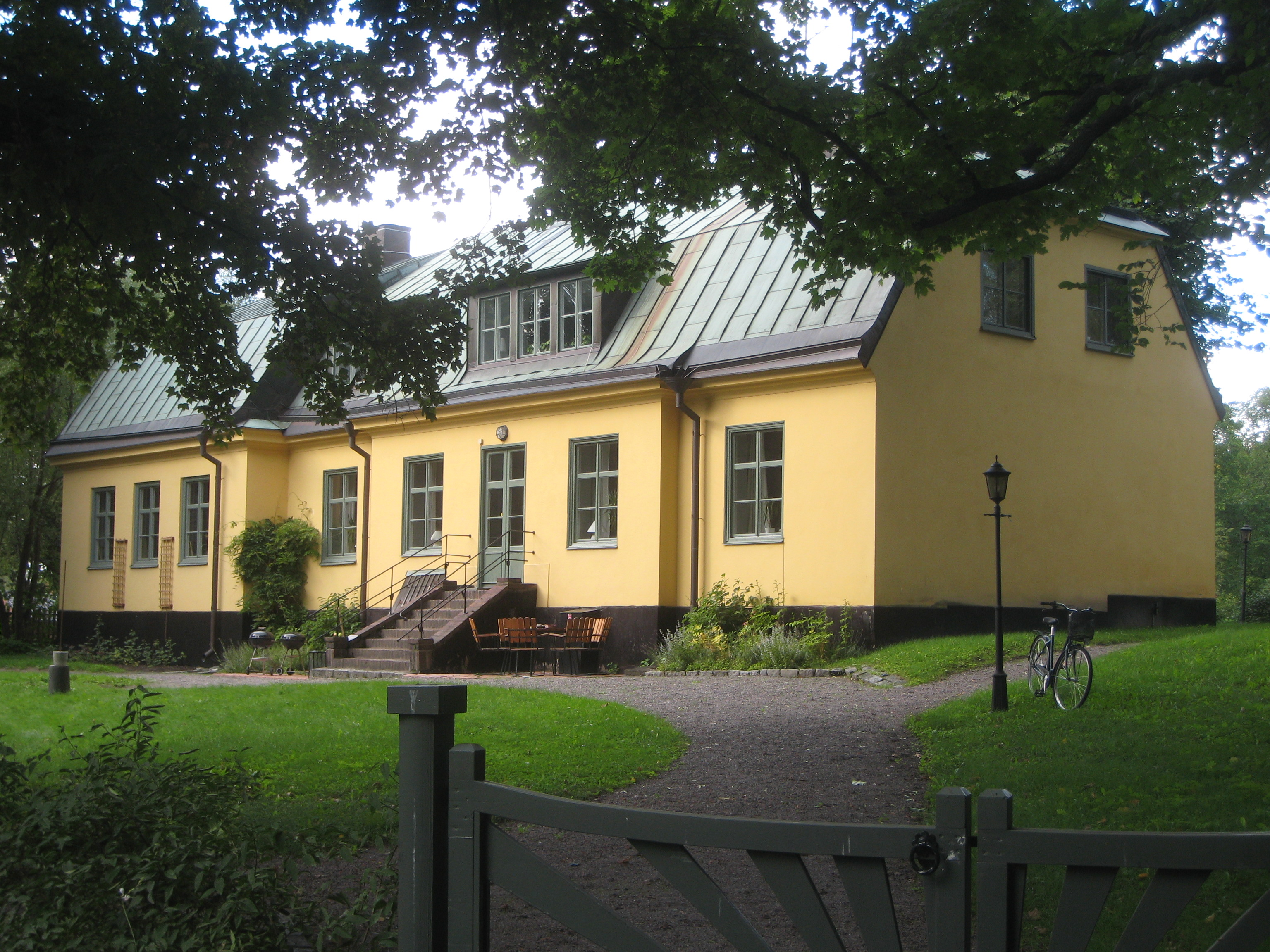 Solna prästgård.